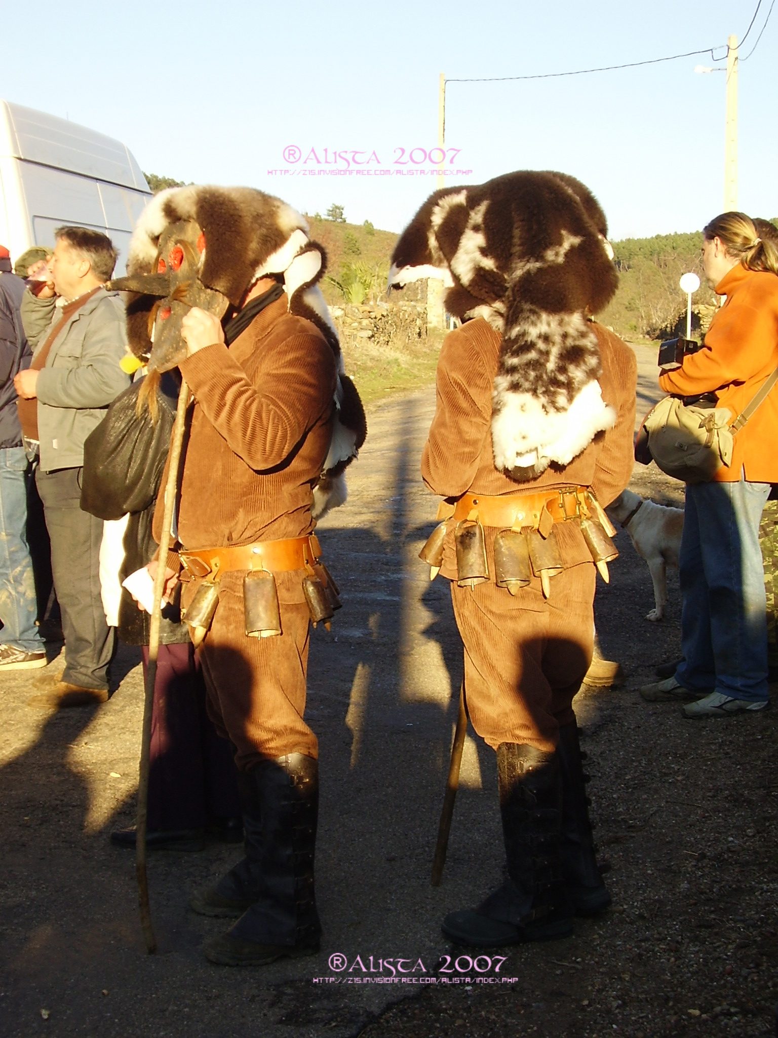 Imagen del Pajarico, personaje de la festividad del Caballico en villarino Tras la Sierra.